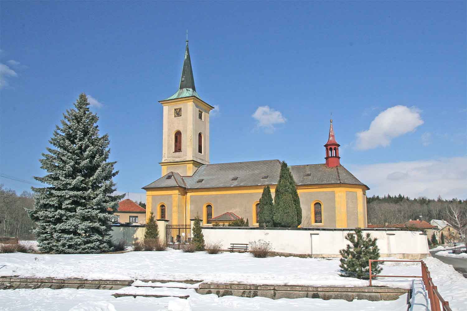 Church of the Ascension in Sruby near Vysoké Mýto, Ústí nad Orlicí District, Czech Republic.